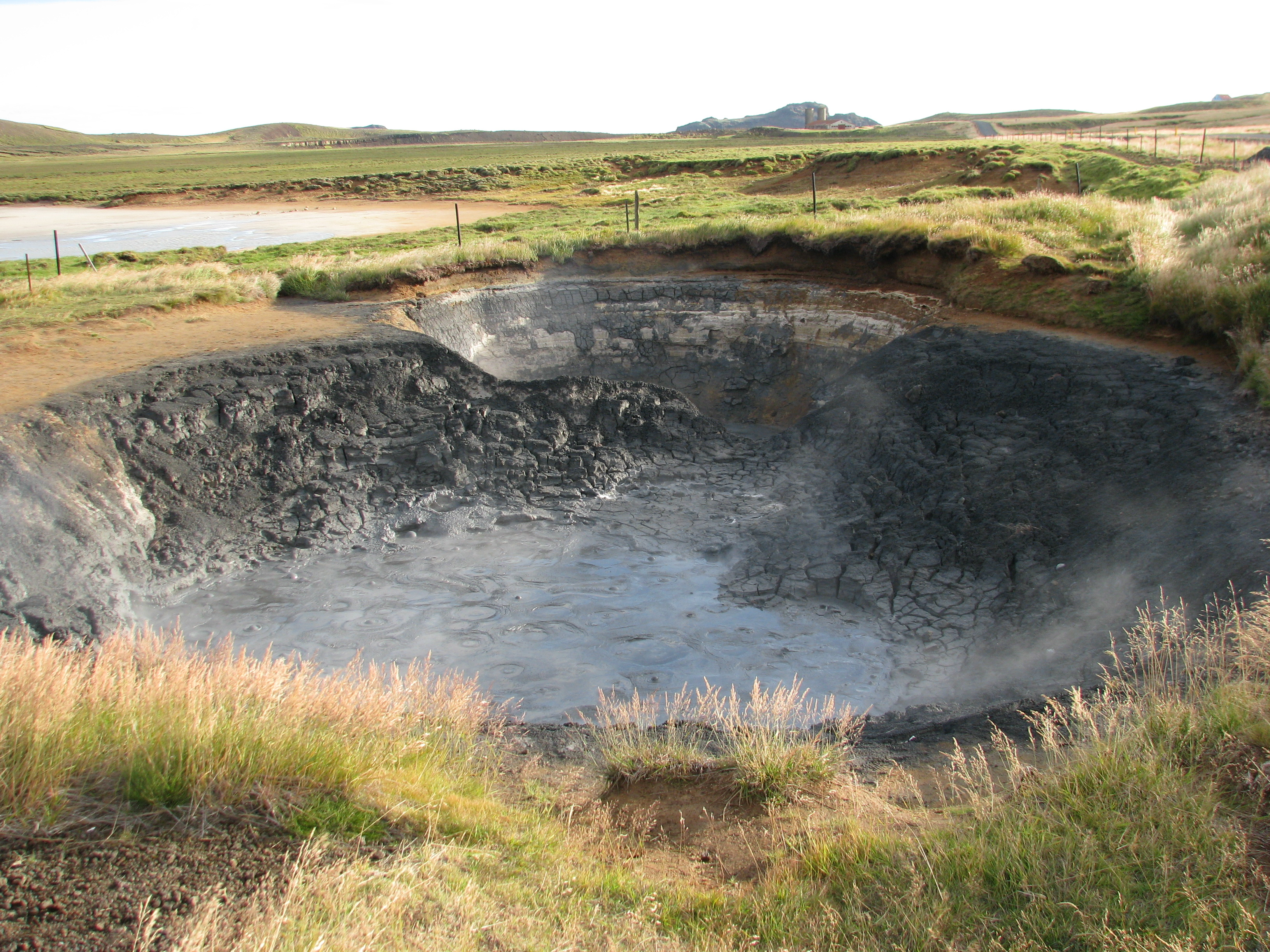 Vulcanic hotspot in Iceland